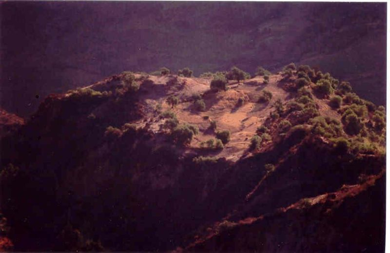 Image come from french Wikipedia page